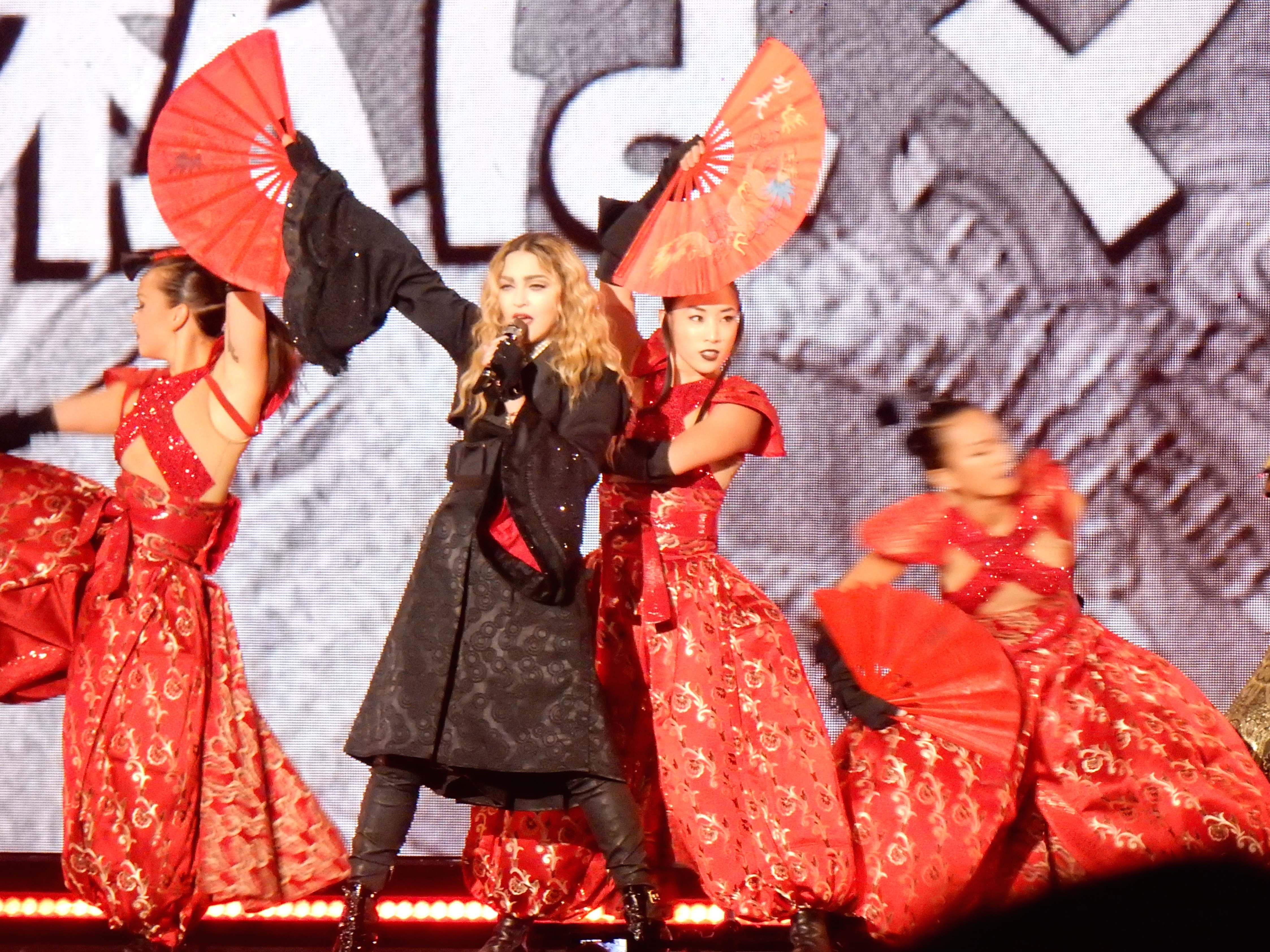 Rebel Heart Tour 2016 - Brisbane 2